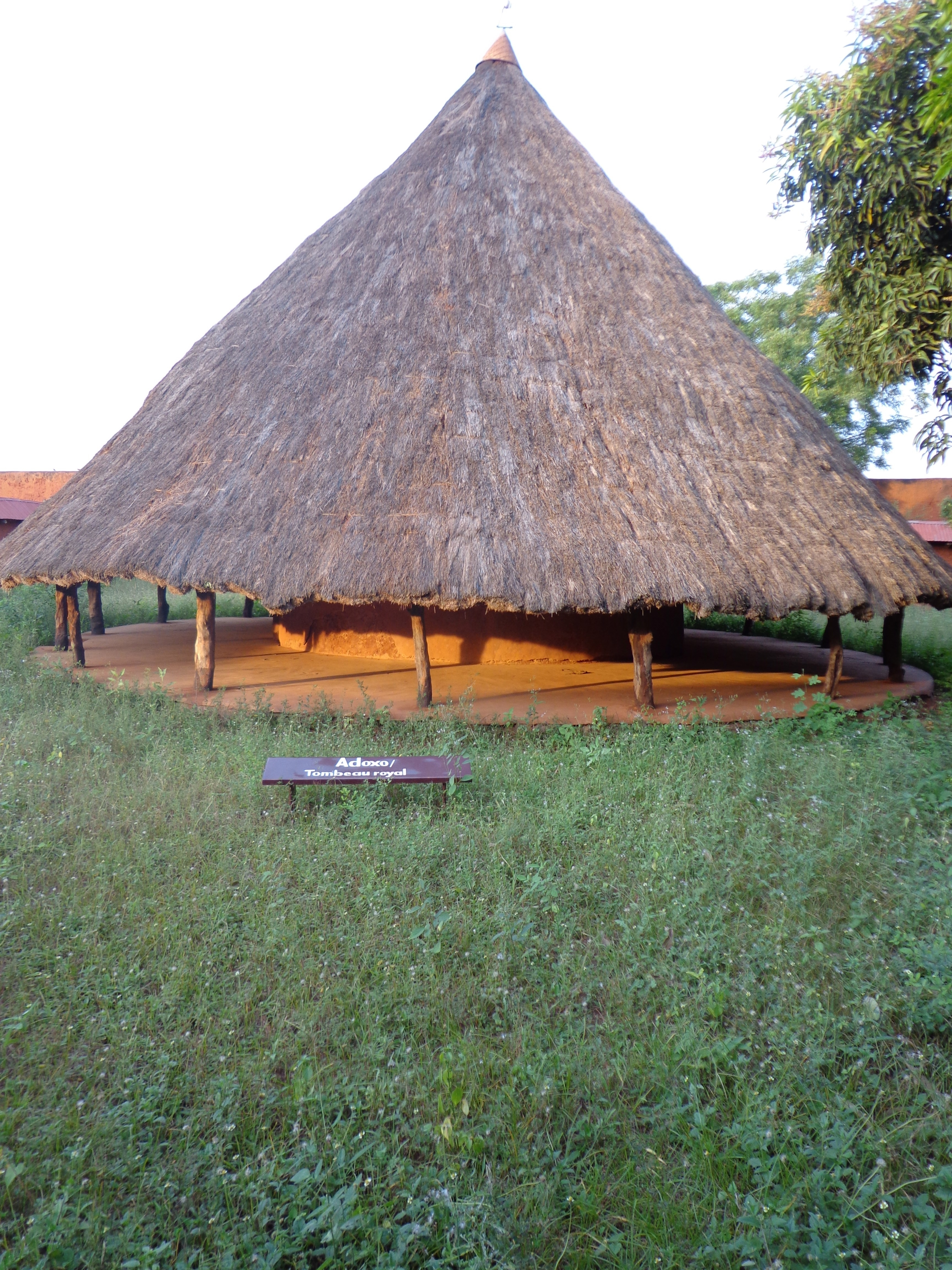 Royal Palaces of Abomey